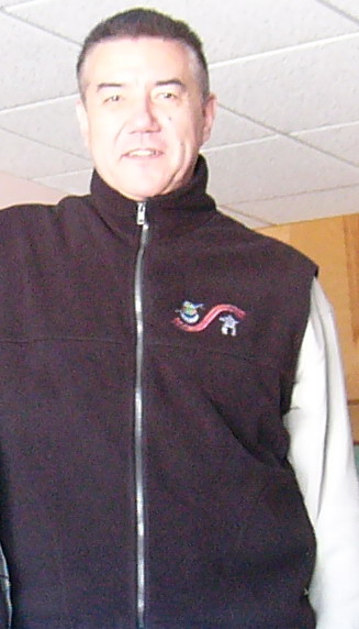 Tom Jackson, Canadian actor, cropped to remove extra person